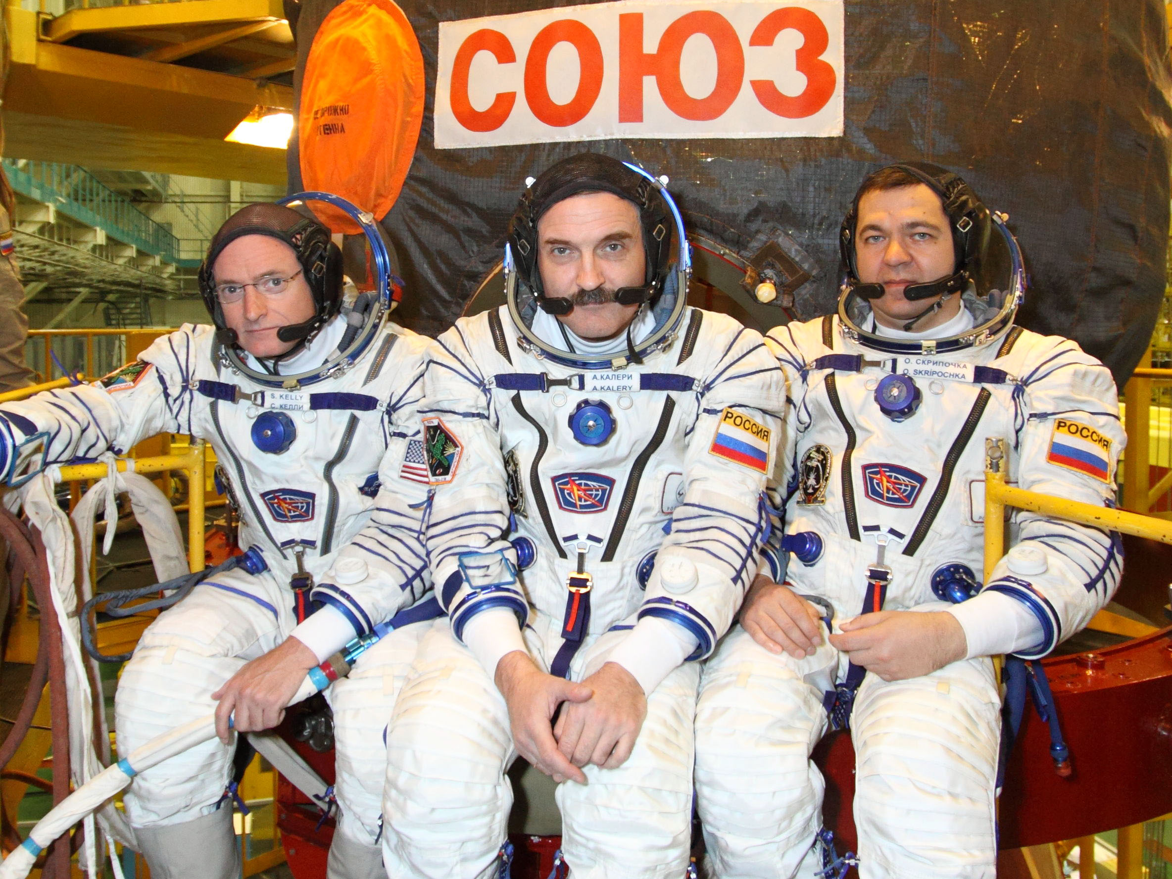 At the Baikonur Cosmodrome in Kazakhstan, NASA astronaut Scott Kelly; along with Russian cosmonauts Alexander Kaleri and Oleg Skripochka (left to right), all Expedition 25 flight engineers, take a moment to pose for pictures in front of their Soyuz TMA-01M spacecraft during a training and Soyuz inspection exercise Sept. 26, 2010. The three are preparing for launch Oct. 8 (Kazakhstan time) to the International Space Station.